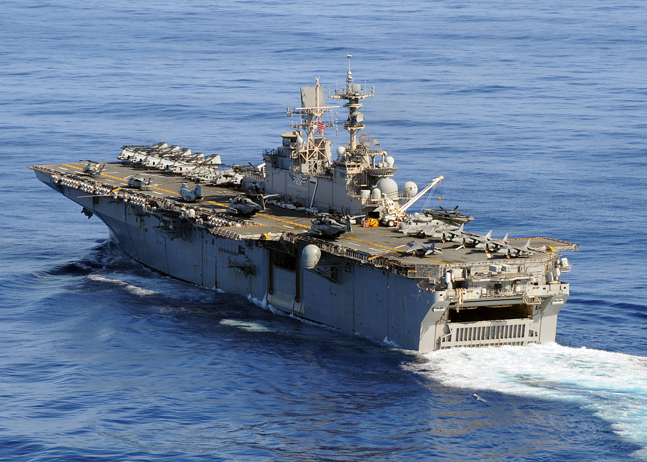 ATLANTIC OCEAN (Sept. 6, 2008) The multi-purpose amphibious assault ship USS Iwo Jima (LHD 7) transits the Atlantic Ocean. Iwo Jima is deployed as part of the Iwo Jima Expeditionary Strike Strike Group, which is supporting maritime security operations in the U.S. Navy's 5th and 6th Fleet areas of responsibility. (U.S. Navy photo by Mass Communication Specialist 2nd Class Jason R. Zalasky/Released)